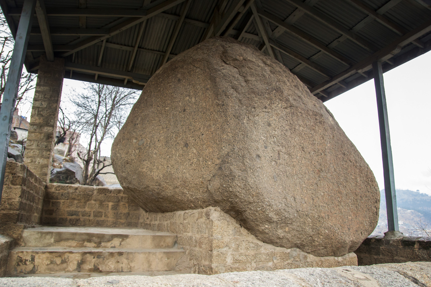 Mansehra Rock Edicts (Fourteen rock edicts of Asoka inscribed on three rock boulders) This is a photo of a monument in Pakistan identified as the KPK-31